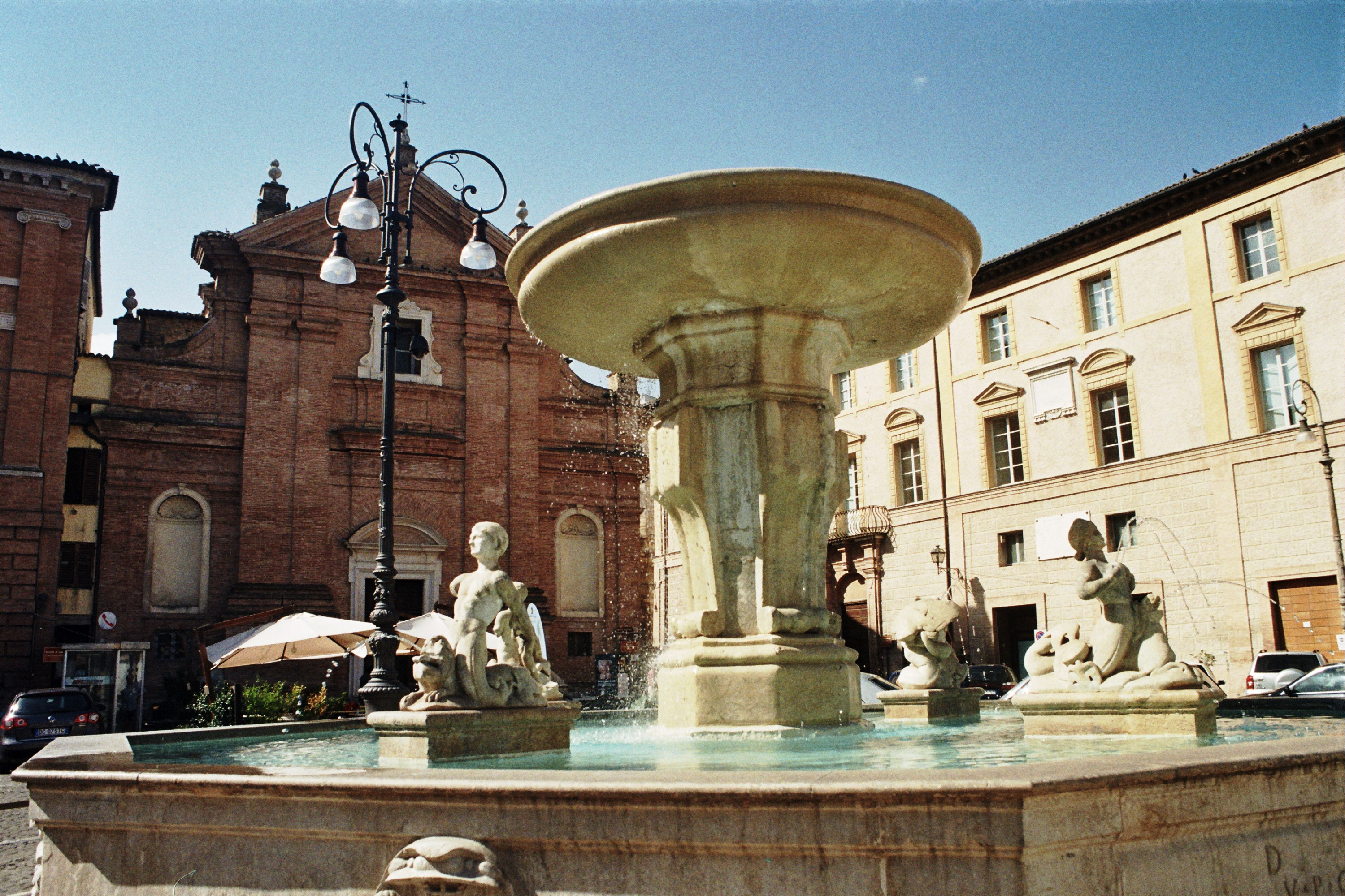 Matelica